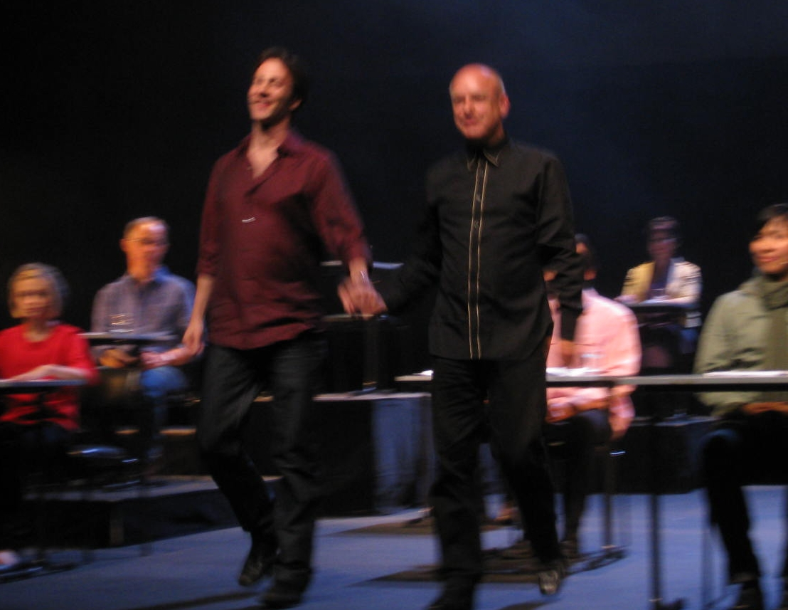 David Eagleman and Brian Eno onstage at the Sydney Opera House, 2009